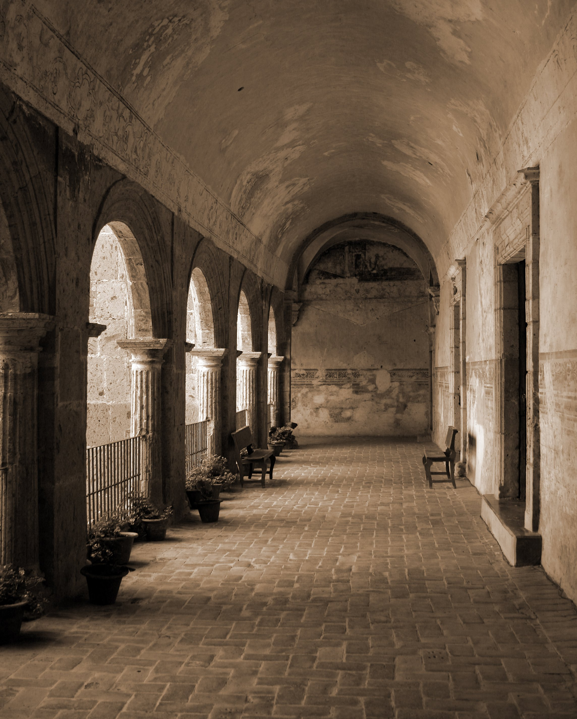 Interior view of Yuriria Convent, founded in 1550, Yuriria, Guanajuato, Mexico